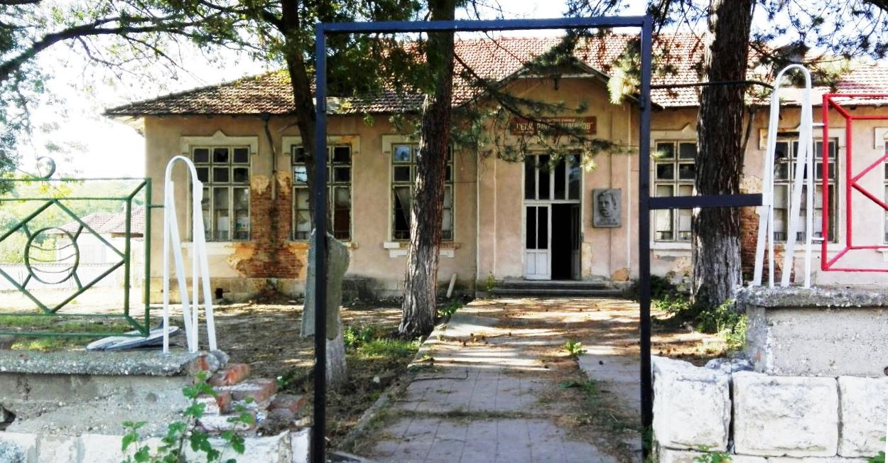 Former kindergarden and school named after Petko Slaveikov in Kamenovo, Razgrad province, Bulgaria.